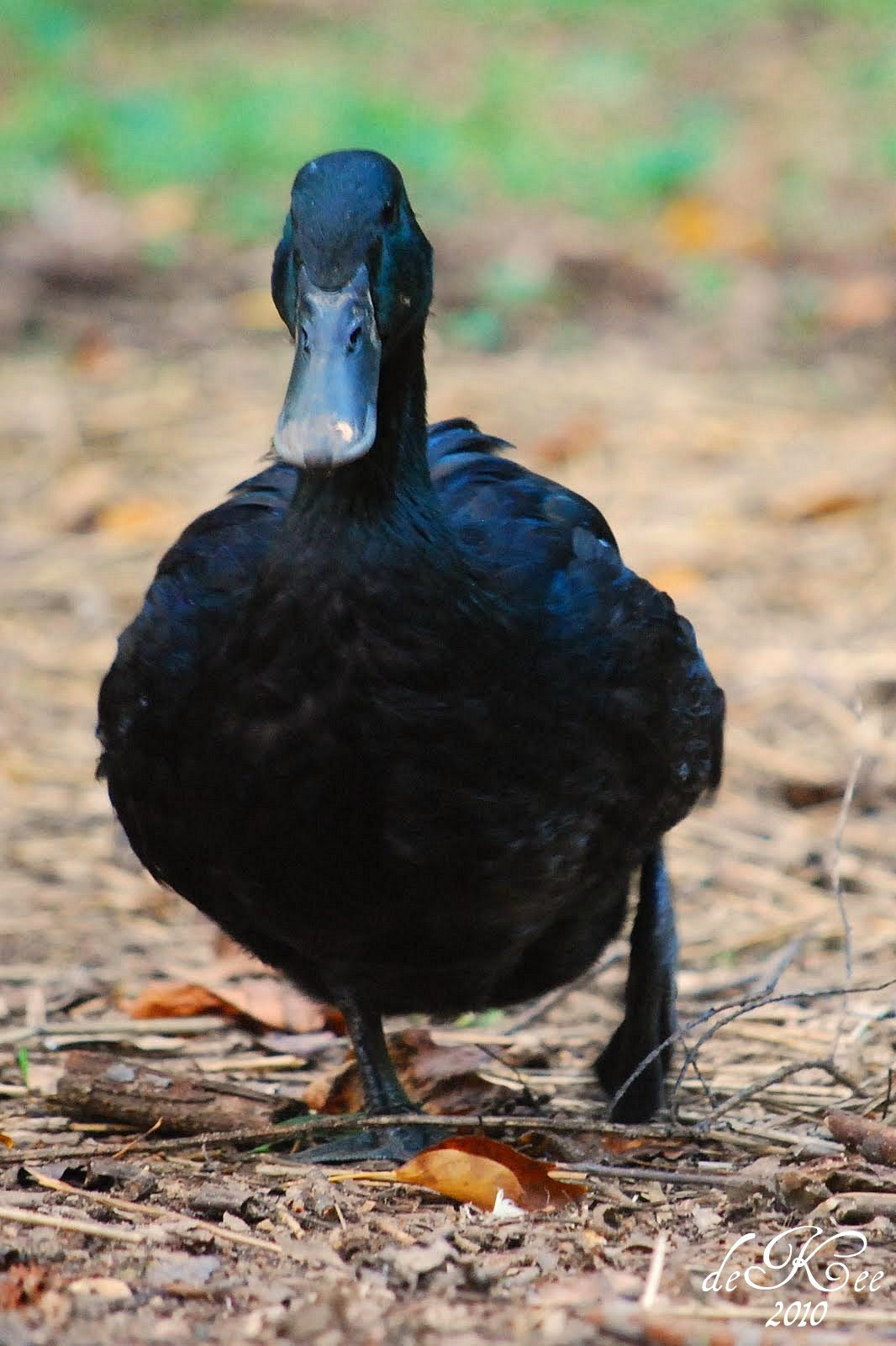 A Cayuga duck.